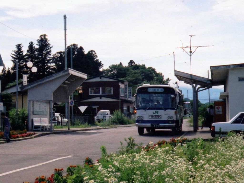 JR Bus Kanto Iwaki-Kaneyama Station